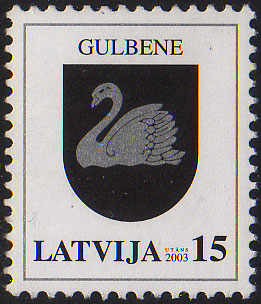 Latvian postage stamp definitive depicting the Gulbene town coat of arms.